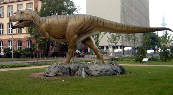 a plastik of a tyrannosaurus in front of the senckenberg.museum in frankfurt/Main/Germany